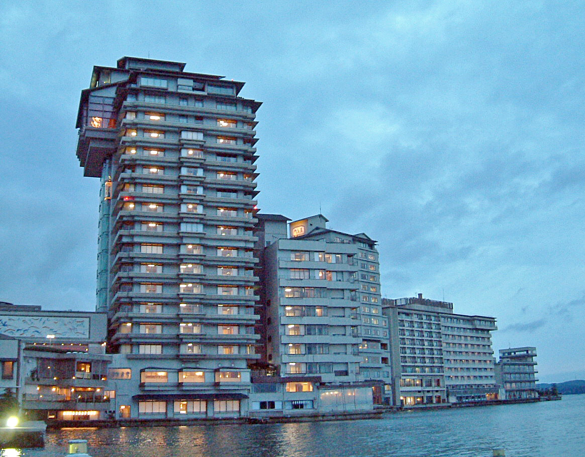 Kagaya(Nanao,Ishikawa Wakura-Onsen)